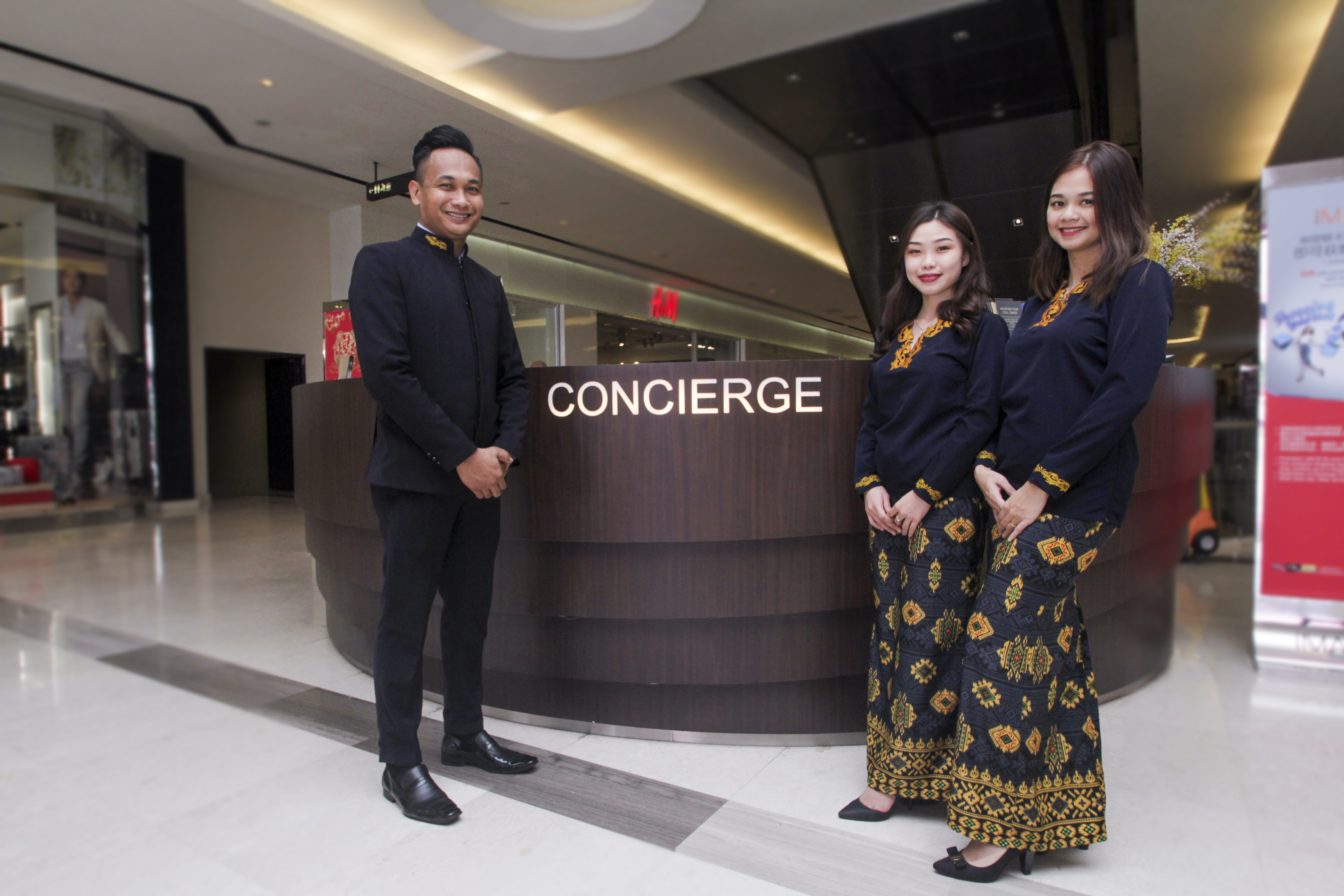 IMAGO Concierge Counter